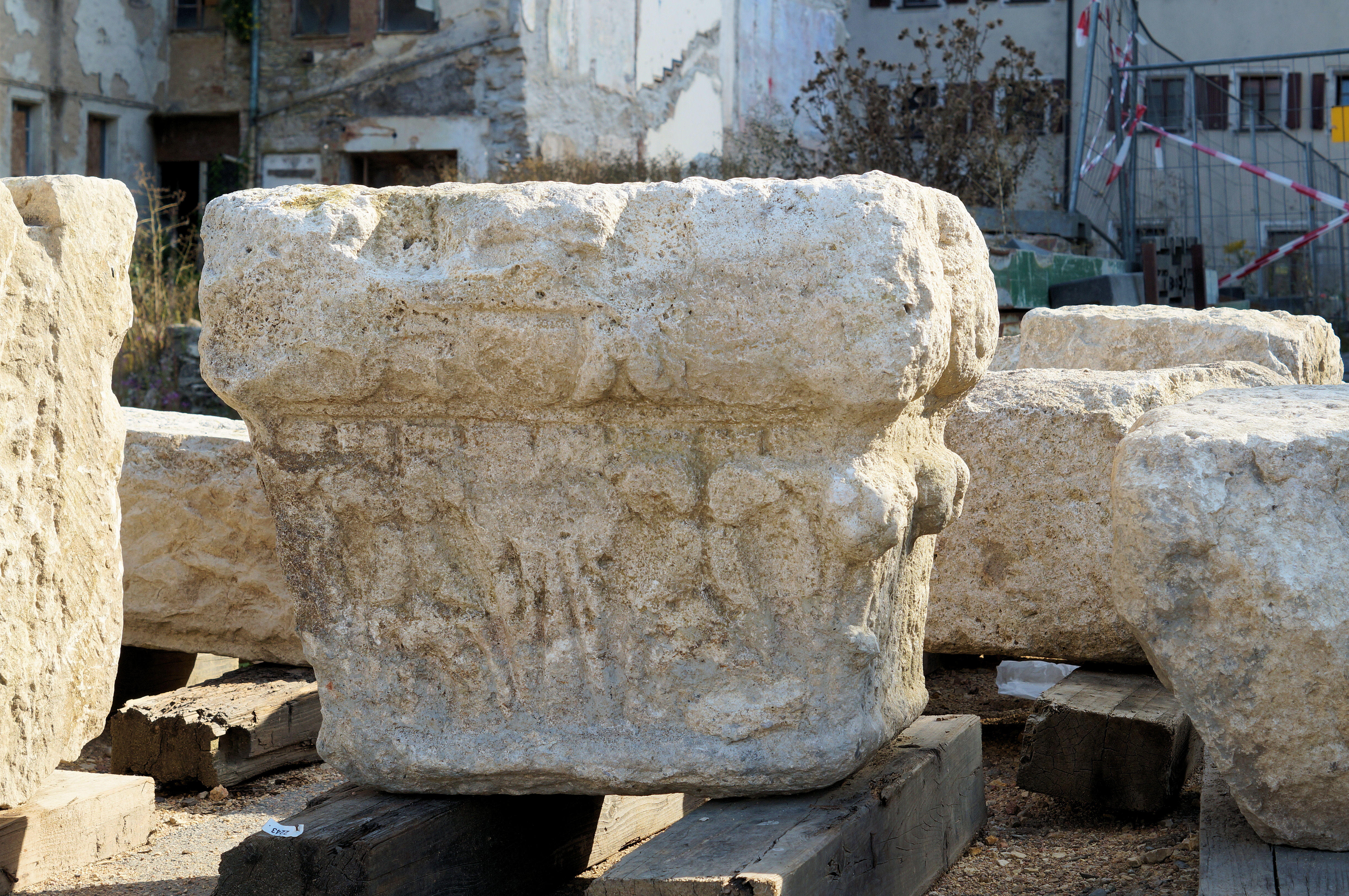 Roman composite capital from Castra Regina, the castra of the 10th legion in Regensburg. It was found during an excavation campain at the Donaumarkt in Regensburg and can be dated to the 3rd century a.C.